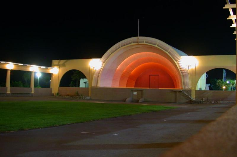 The Sound Shell in Napier, New Zealand. New Zealand Historic Places Trust Register number: 4822.